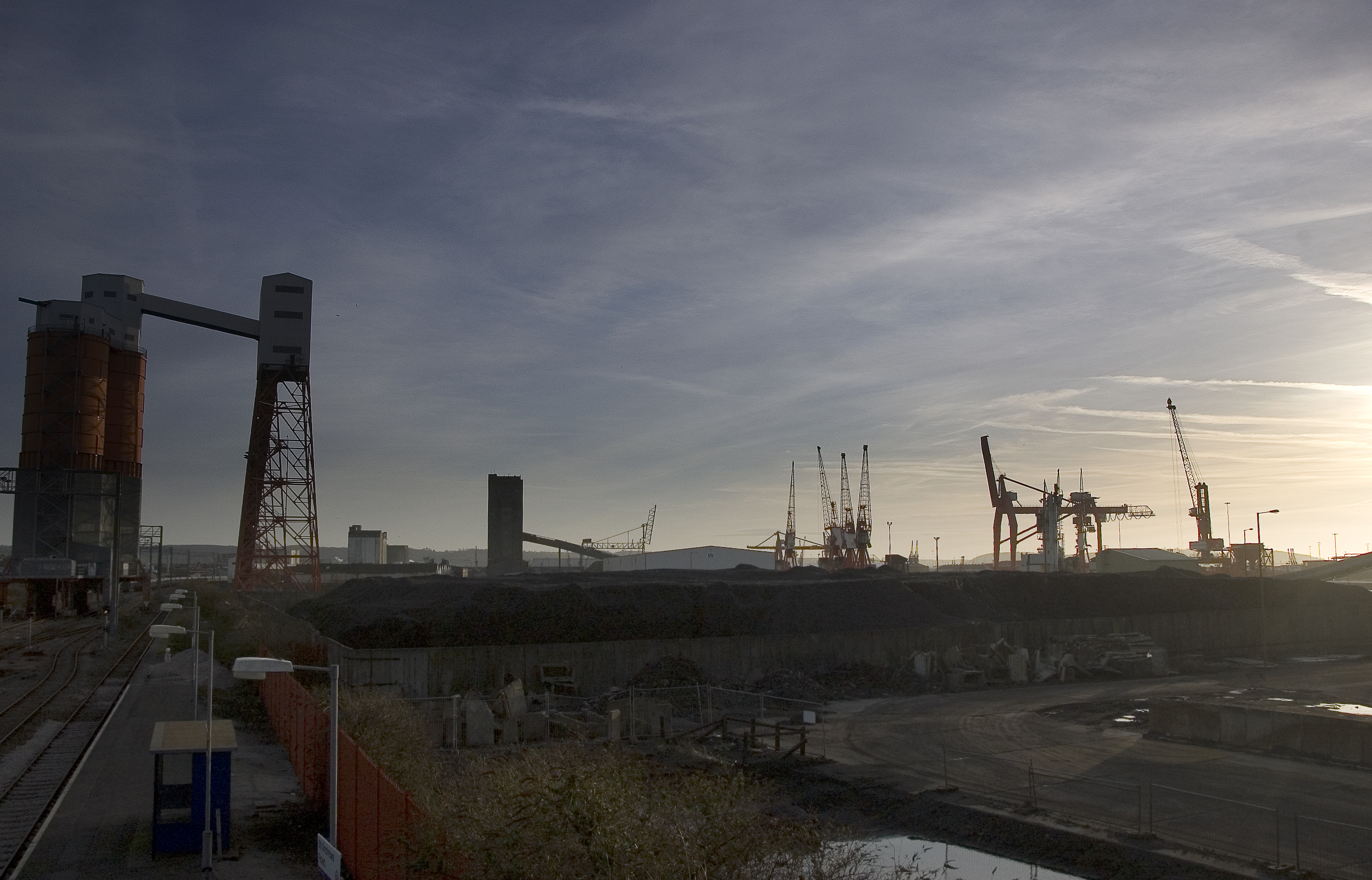 Avonmouth Docks, seen from St Andrews Road railway station.